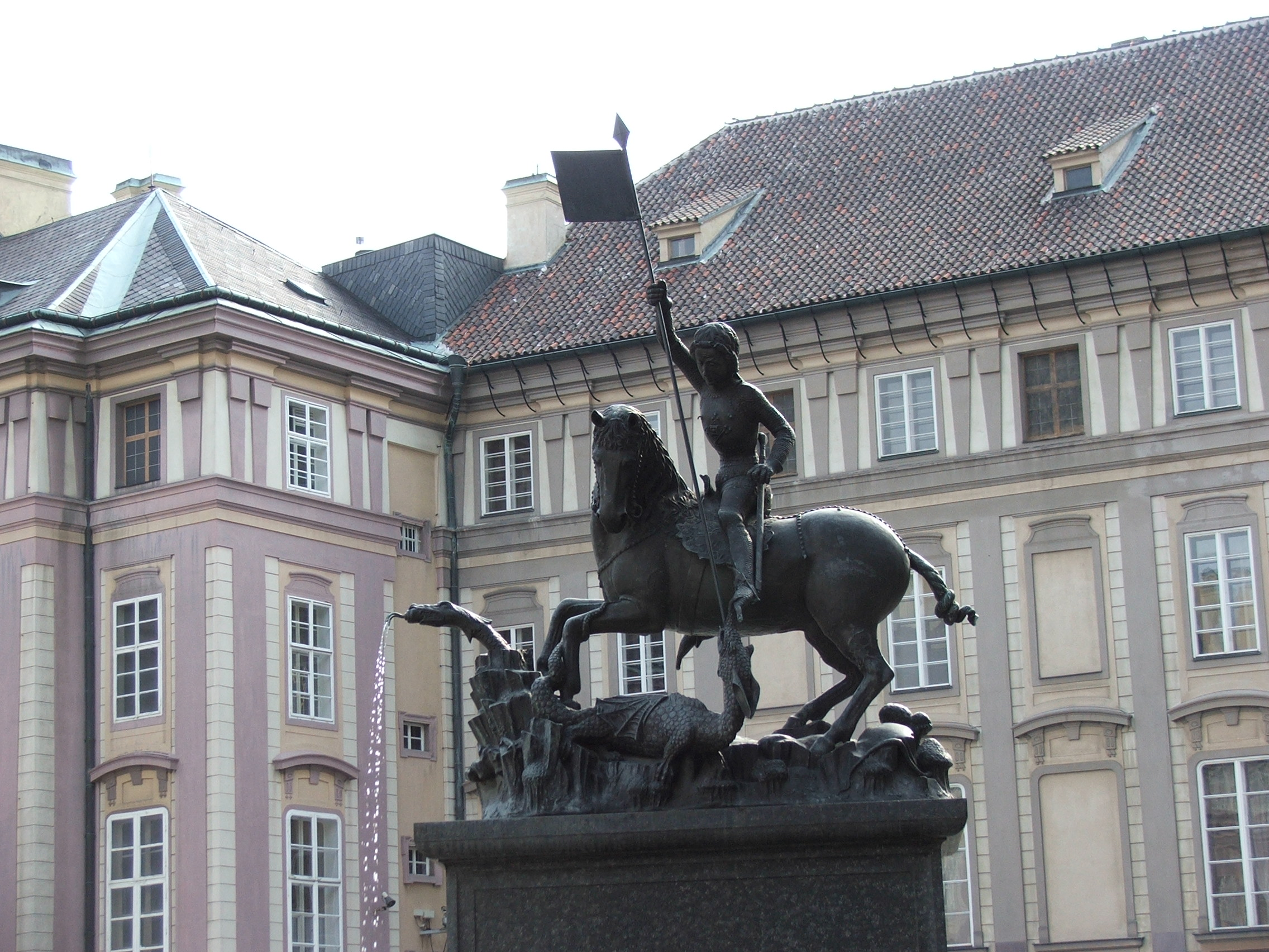 St. George fighting dragon - Prague Castle, 3rd courtyard